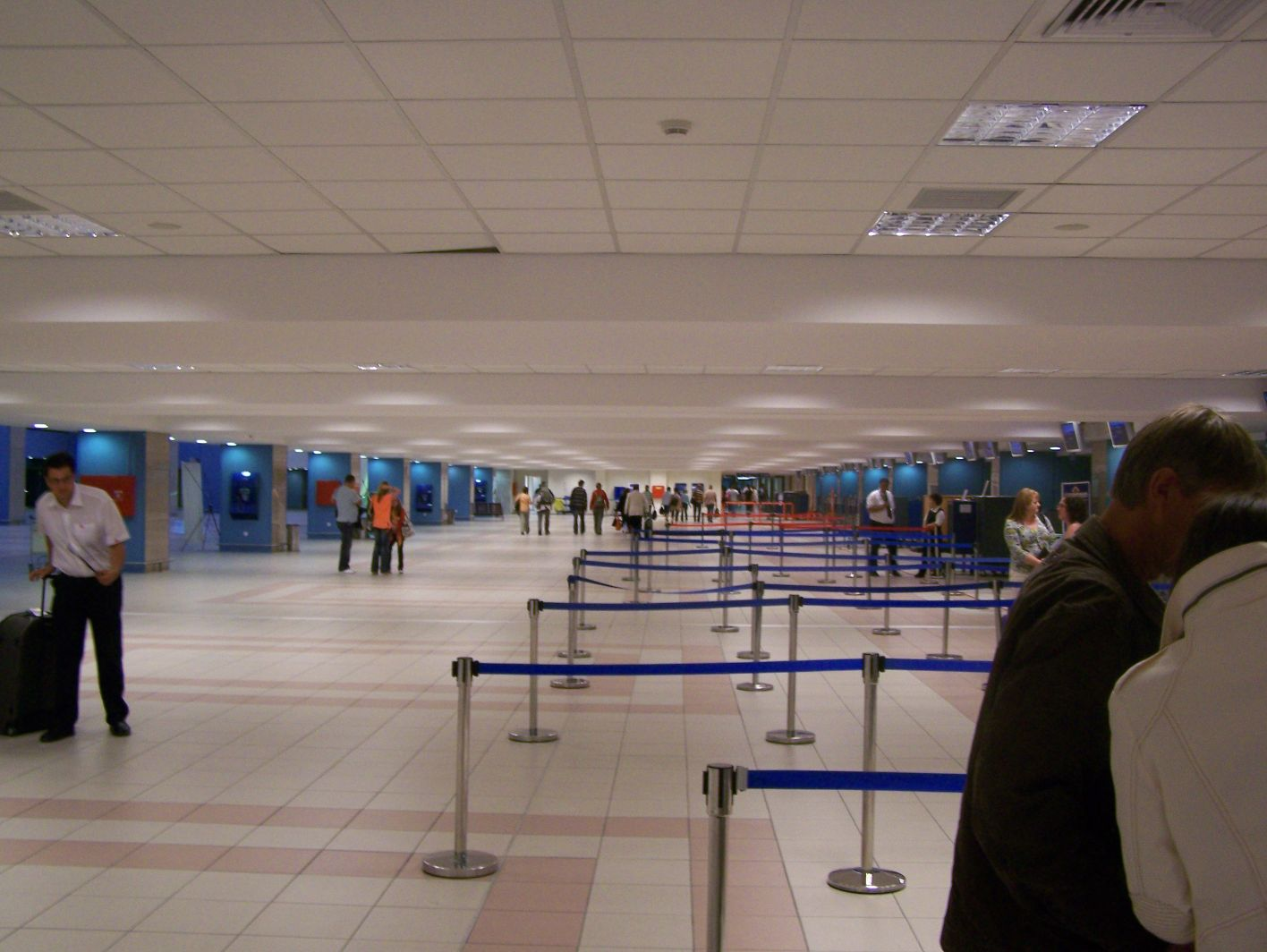 Airport of